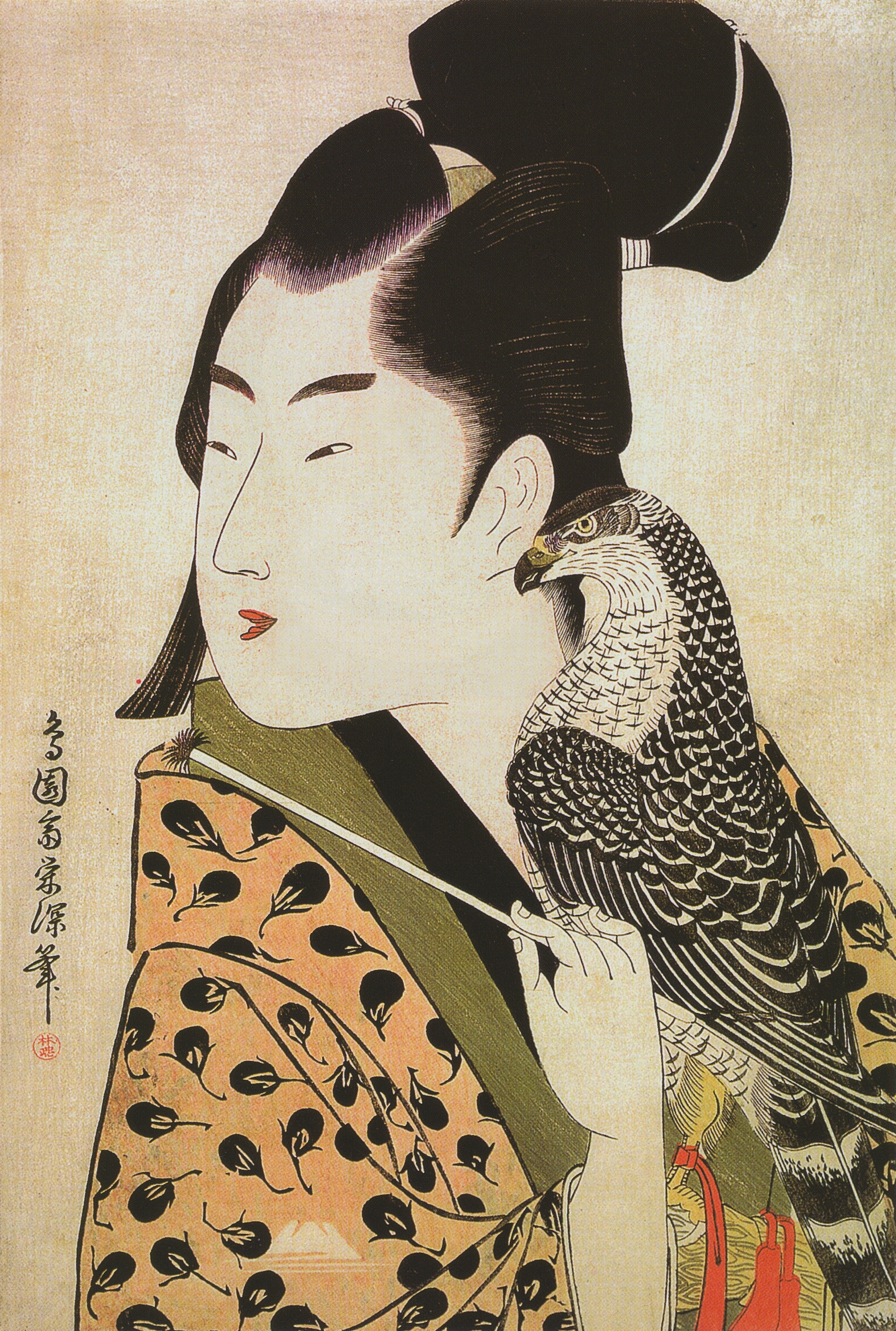 Falconer. Japanese falconer during the Kansei period (1789-1801) with a goshawk sitting on his left hand. His Haori (short Kimono) shows an eggplant pattern and the emblem of the Fuji mountain.